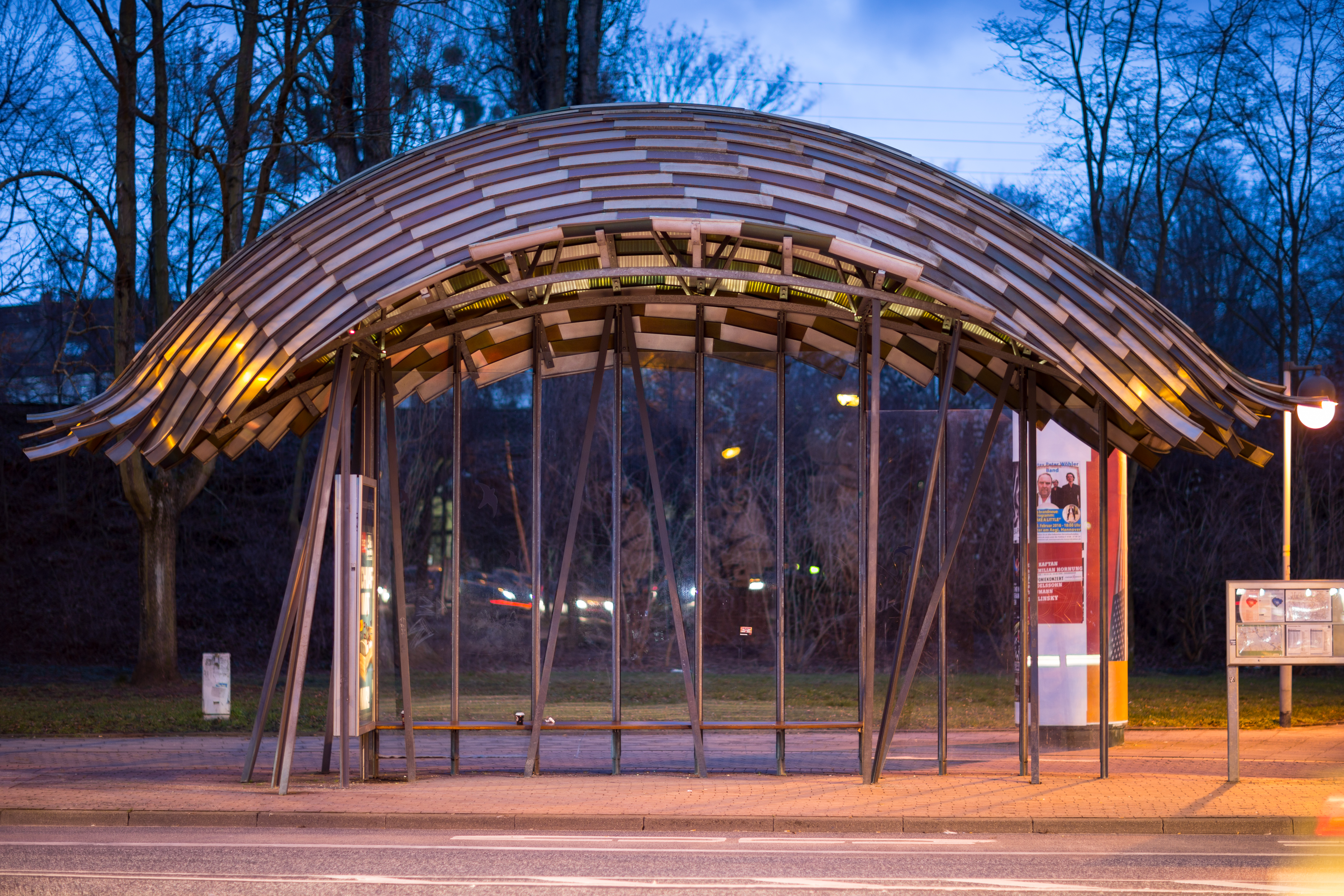 Bus station Braunschweiger Platz, designed by Frank Gehry as part of the BUSSTOPS art project. The station is located at Braunschweiger Platz square / Bischofsholer Damm in Bult quarter of Hannover, Germany.